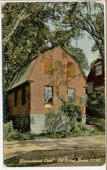 Postcard: Old school house, Norwichtown section of Norwich, Connecticut, 1913 postmark Description: "1913 postally used postcard pub by Hugh C. Leighton, No. L-570, showing the Old School House in Norwichtown, CT." Caption: "Norwichtown, Conn. Old School House, 1789." Source: eBay store Web page